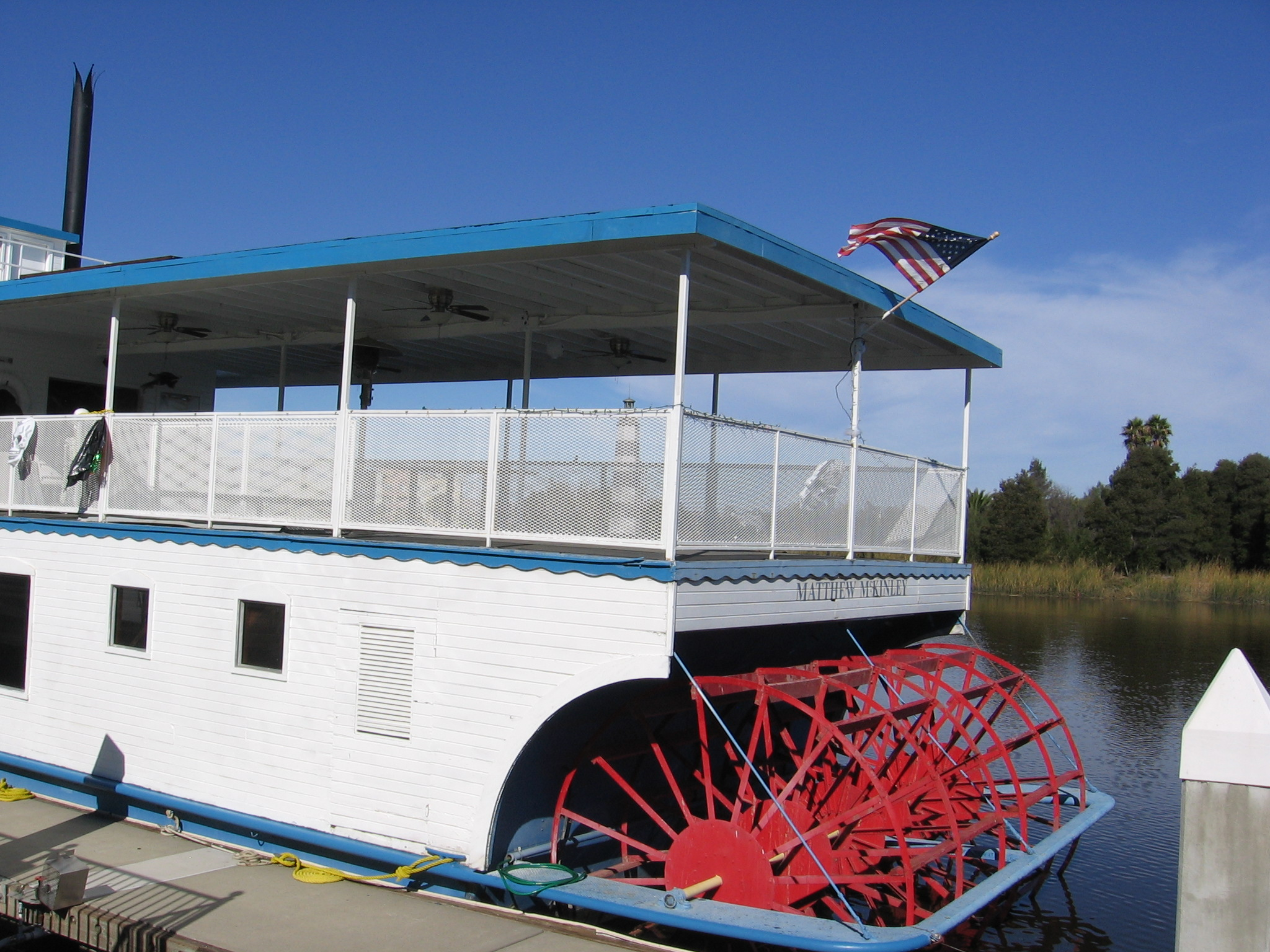 Suisun City, California